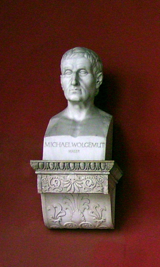 Bust of Michael Wolgemut at Ruhmeshalle ("Hall of fame"), München, Germany. Picture taken by myself: Dominik Hundhammer, München, 27 March 2006.